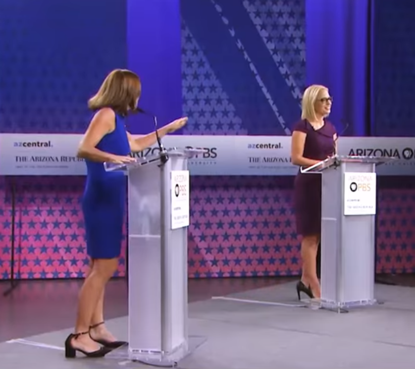 Kyrsten Sinema and Martha McSally in a debate for Senate's election in 2018.